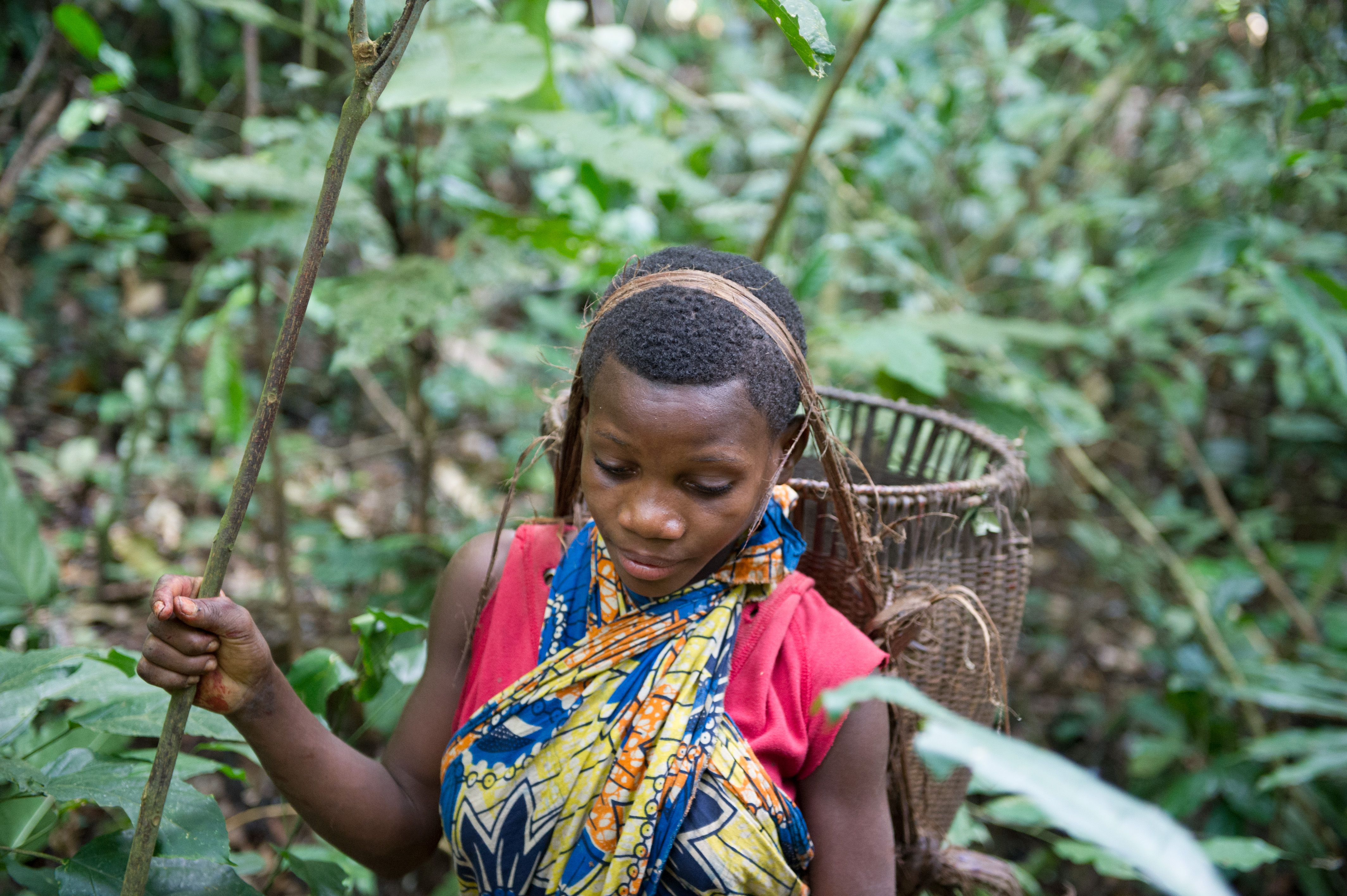 I spent a night in the forest with about 30 BaAka people in southern Central African Republic -- after arriving, they went to hunt with nets and caught two duikers This is an image of Cultural Fashion or Adornment from Central African Republic